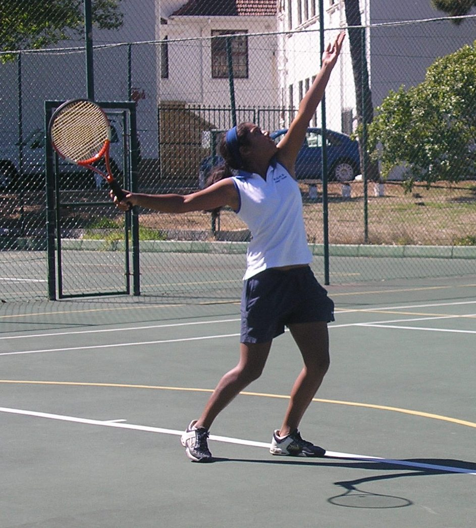 Photo of a woman with a tennis raquet